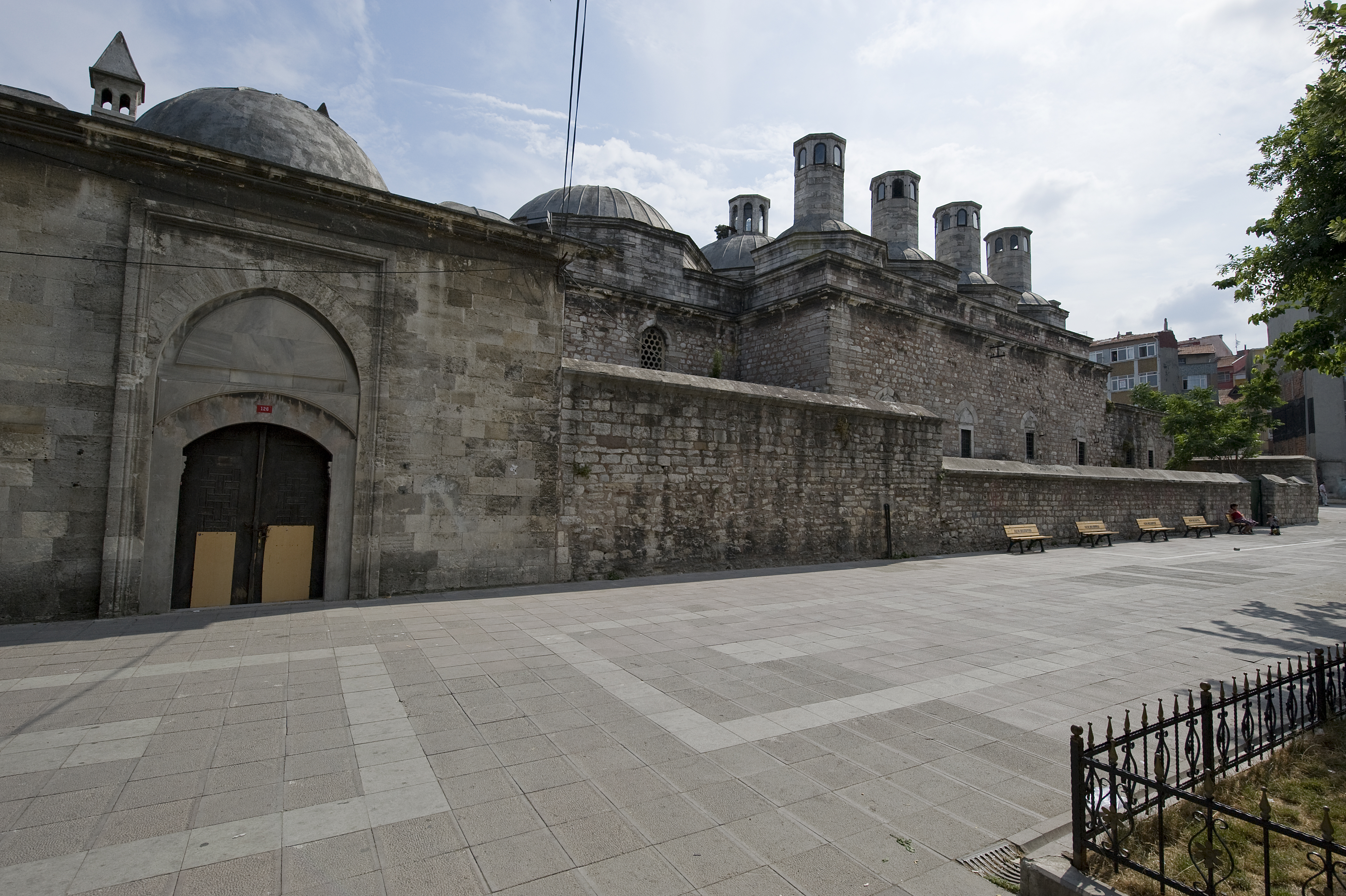 Across a street from the mosque there are the other buildings of the complex. These are the kitchens of the imaret (soup kitchens) with enormous chimneys (to the right). To the left the domes of the hospital.